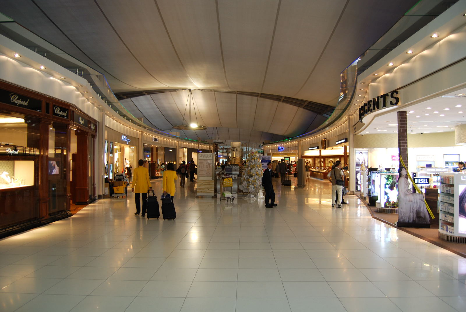 Duty-free shop in the Suvarnabhumi International Airport near Bangkok, Thailand.